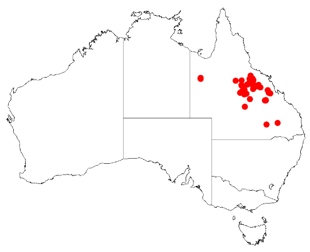 Acacia argyrodendron occurrence data from AVH downloaded 9 December 2018